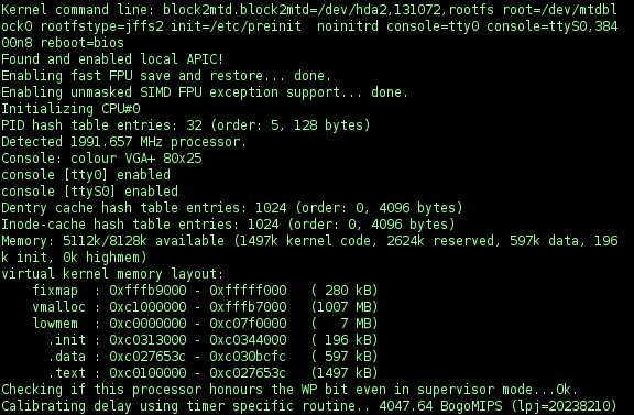 linux kernel booting under qemu (openwrt) + gnome-terminal